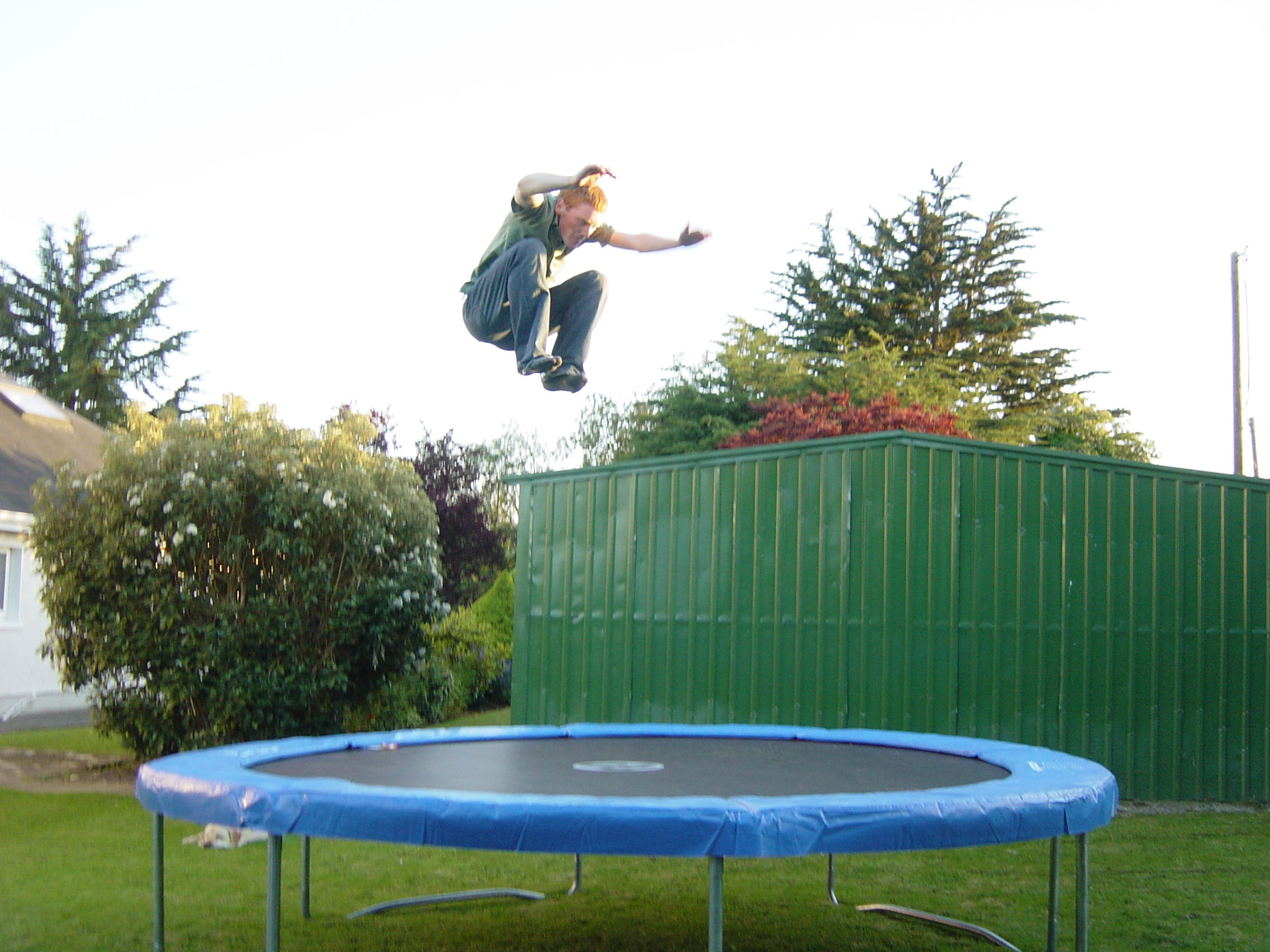 A kid at the peak of his jump on a trampoline.